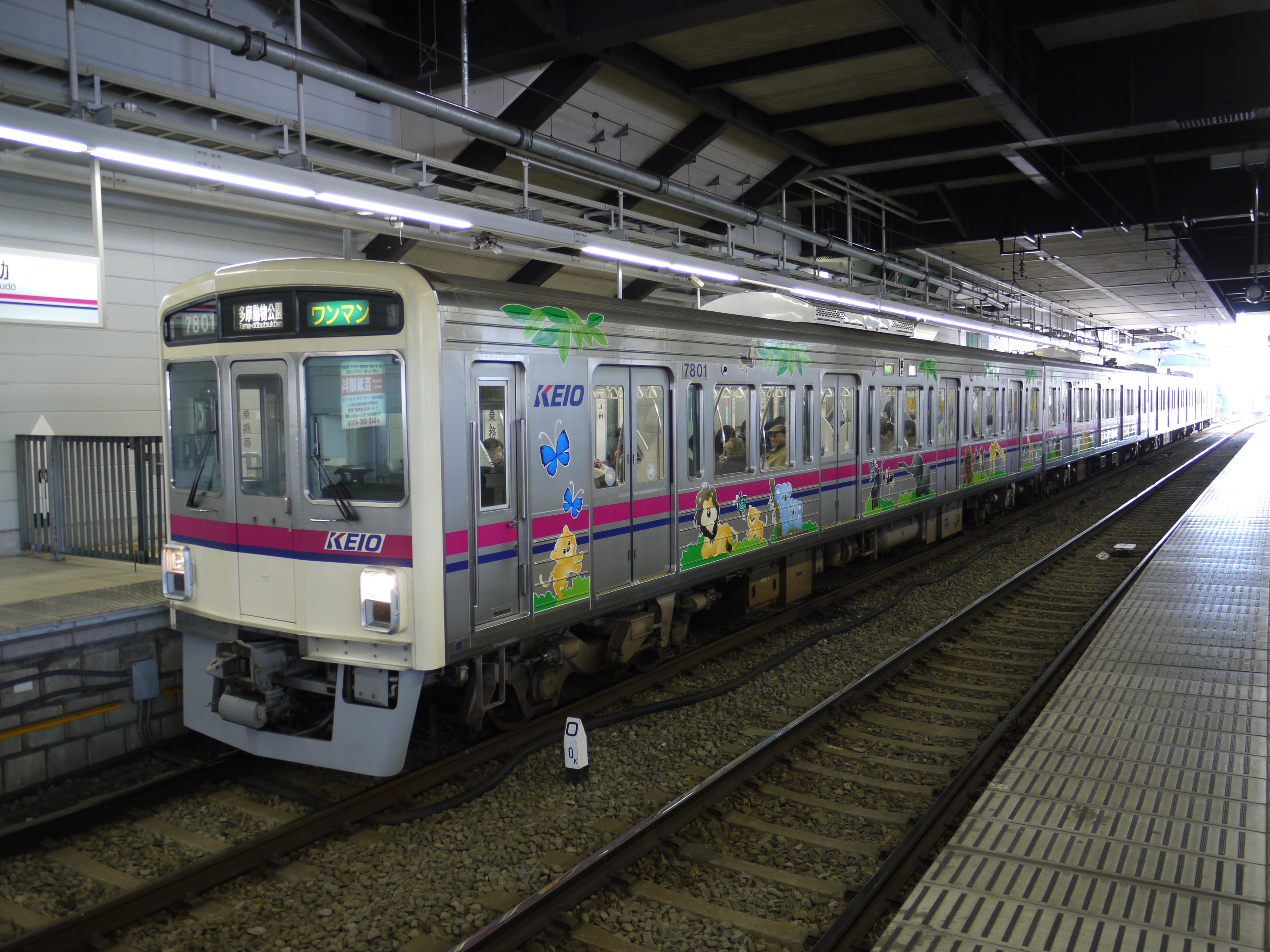 Keio unit 7801 decorated with animals in Tama Zoo at Takahata Fudo station